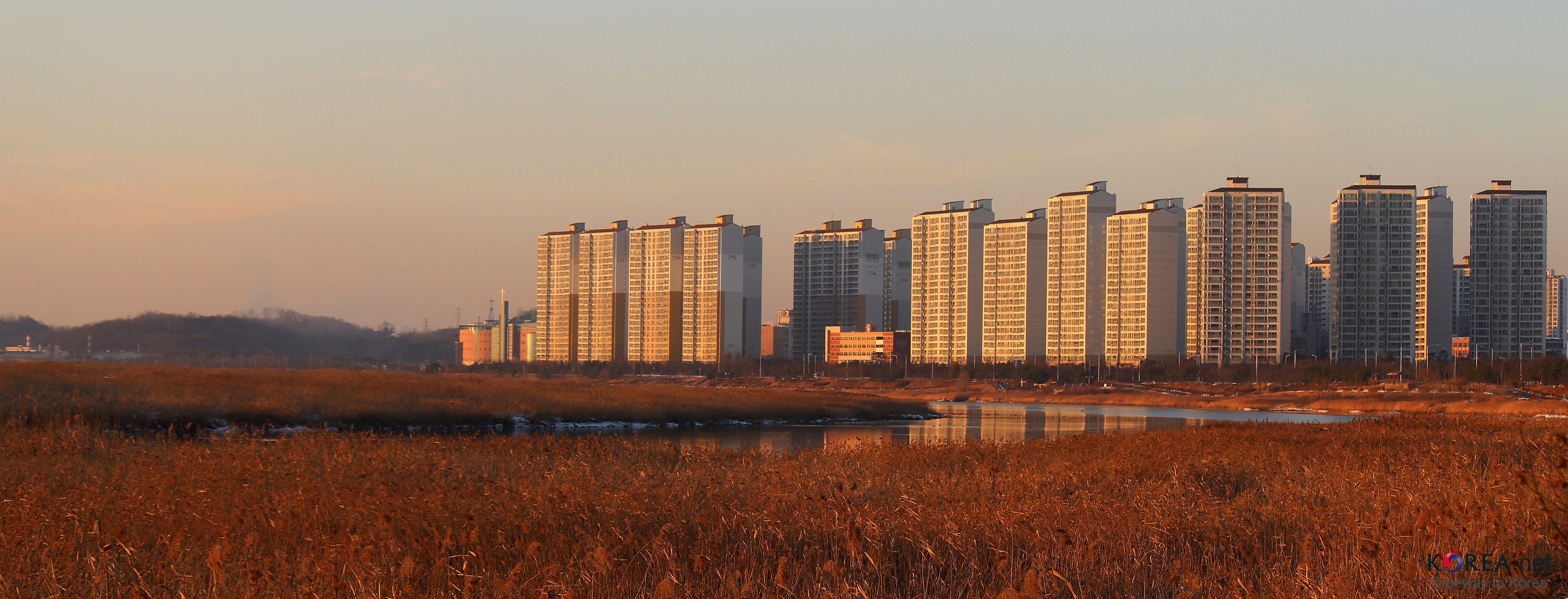 Shihwa Lake December 15, 2013. Shihwa Lake, Ansan-si, Gyeonggi-do Ministry of Culture, Sports and Tourism Korean Culture and Information Service ( Wi Tack-whan 시화호 갈대습지공원 2013-12-15 경기도 안산시 시화호 문화체육관광부 해외문화홍보원 코리아넷 위택환